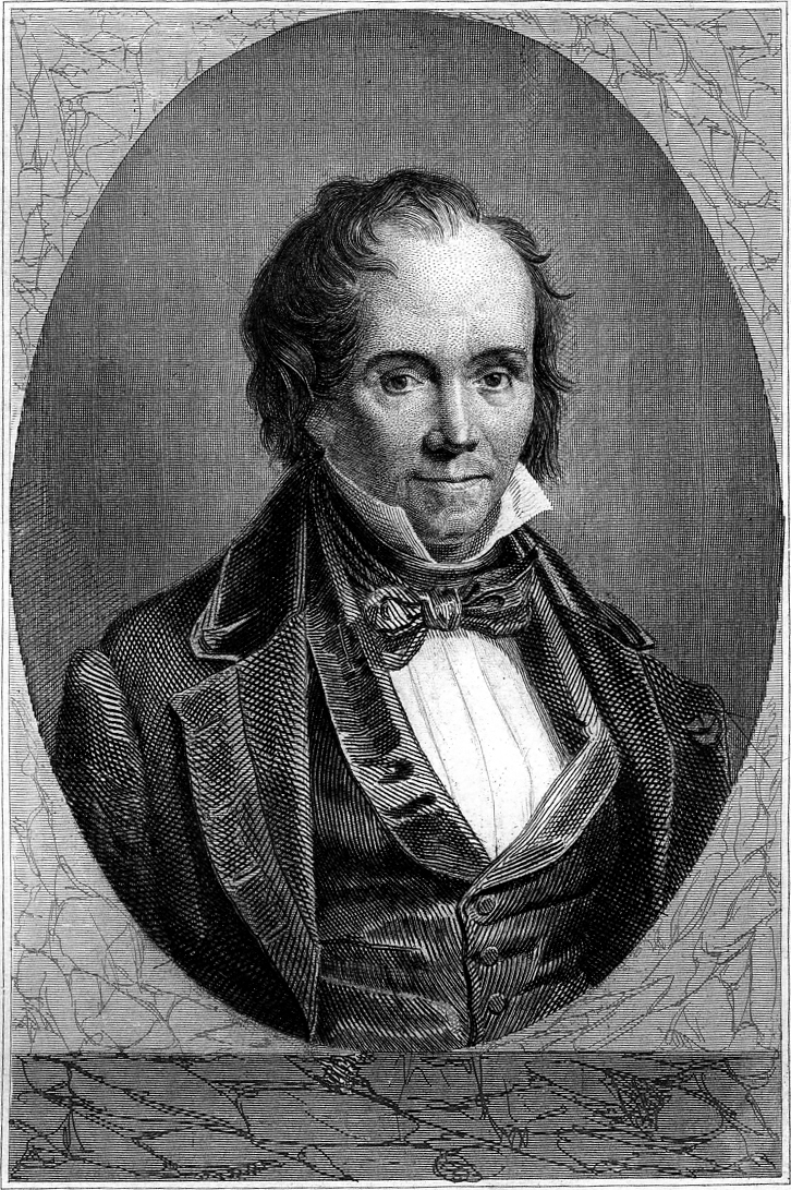 Casimir Delavigne (1793-1843), French poet and dramatist